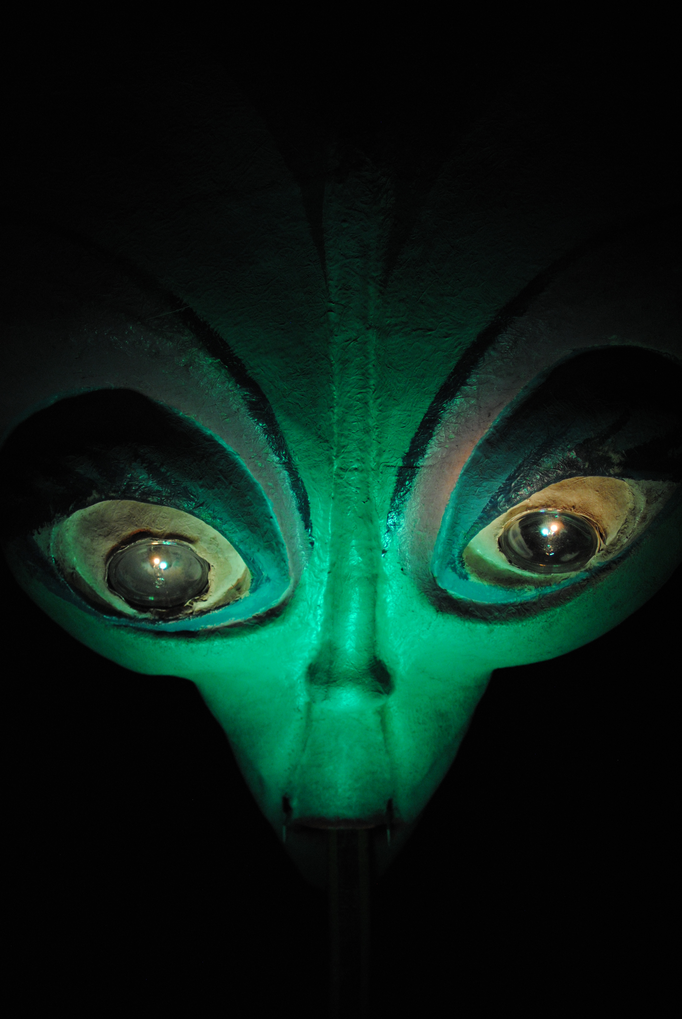 Head of the 'wife' puppet from the 1980/1981 The Wall concerts; displayed at the Pink Floyd: Their Mortal Remains exhibition at the Victoria and Albert Museum.